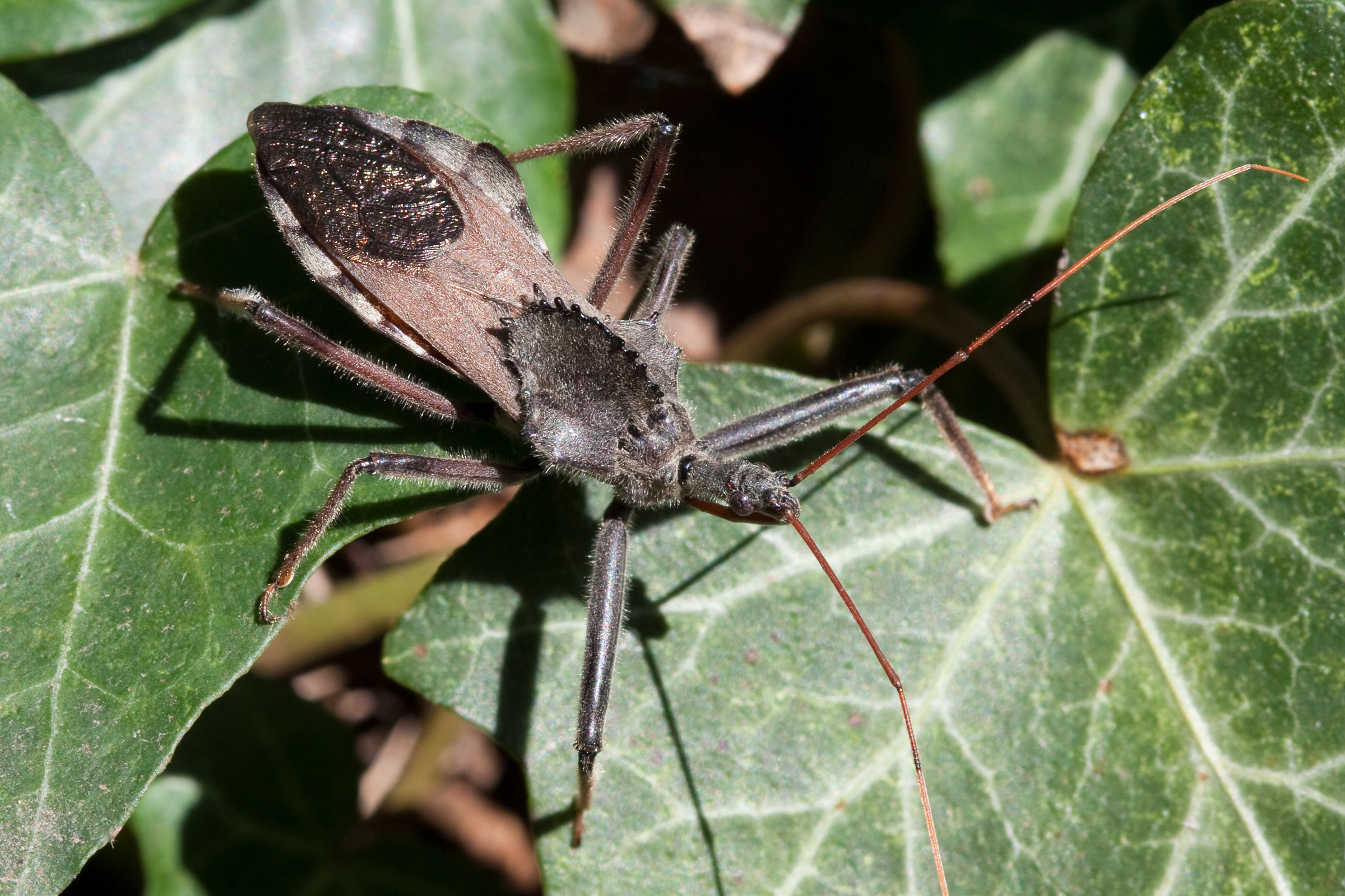 Wheel bug (Arilus cristatus) at Shelby Park in Nashville, Tennessee. Focus stack of two images.